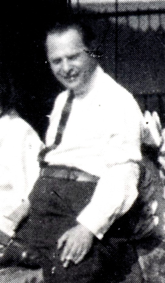 Leo Birinski on cut from photo of crew of the movie Das Wachsfigurenkabinett.